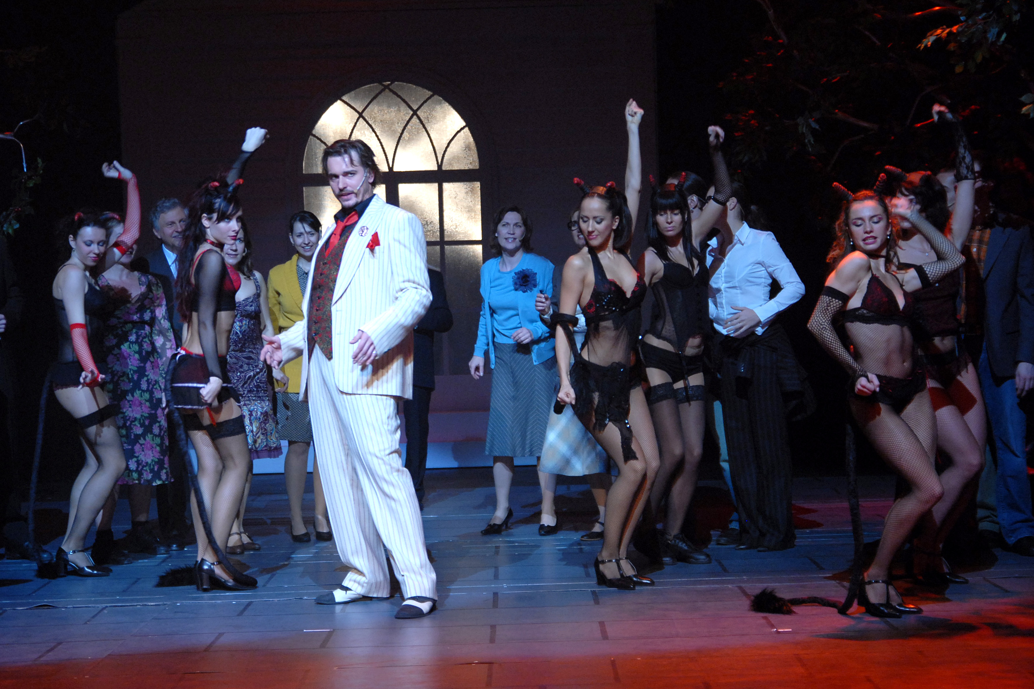 Petr Štěpán